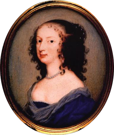 Portrait of Margaret Lucas Cavendish, Duchess of Newcastle-upon-Tyne (1623 – 15 December 1673)